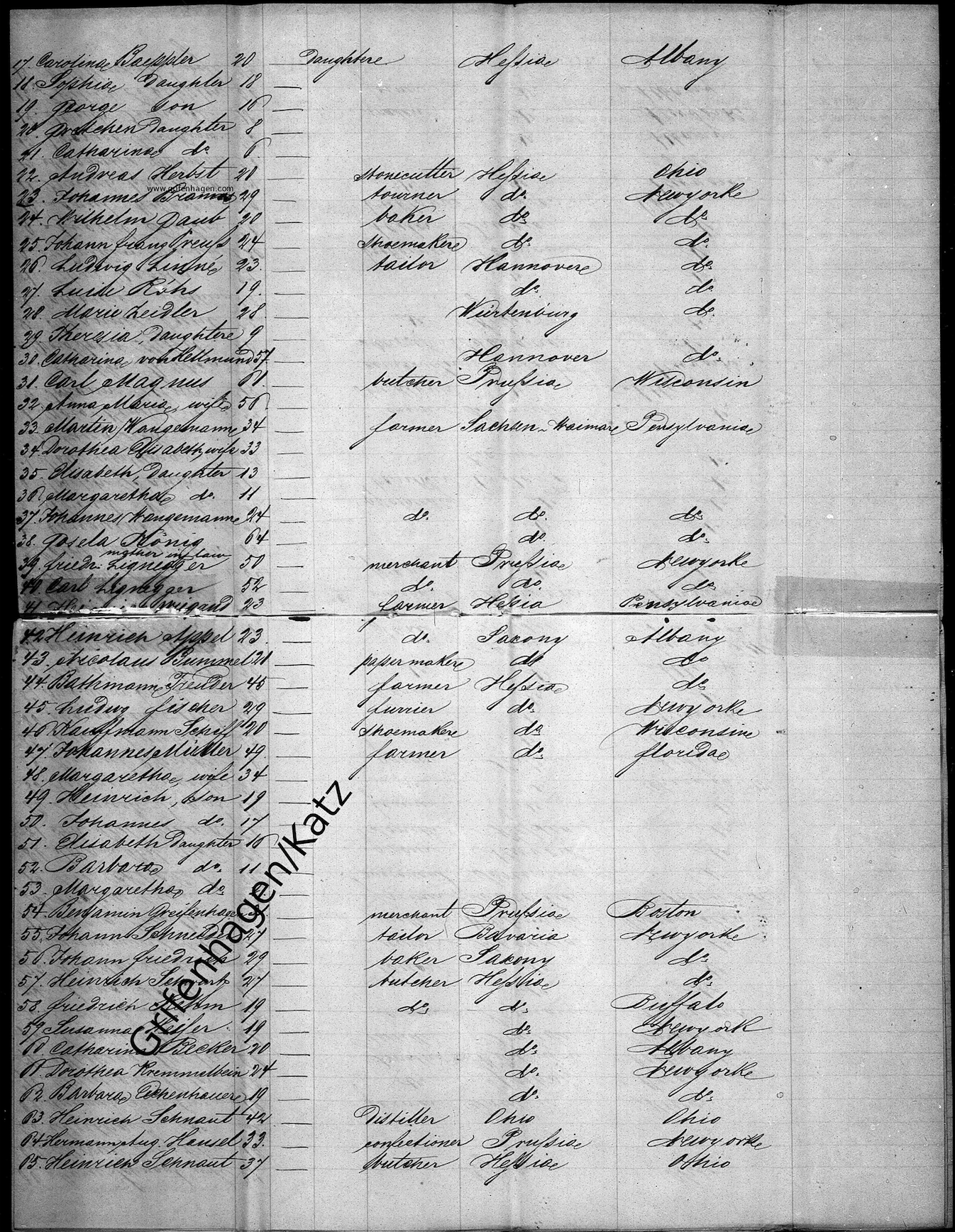 Passenger list showing the immigration of Max's father, Benjamin William Grifenhagen (originally spelled Greifenhagen)